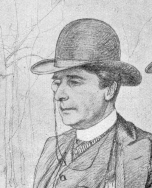 Portrait of the German actor Friedrich Haase (1825-1911), drawn by C.W.Allers